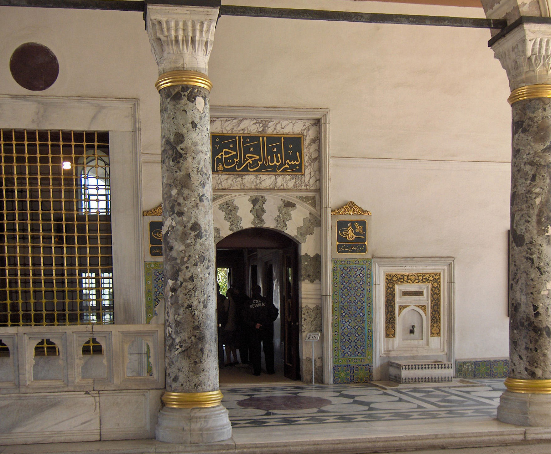 Arz Odasi seen in the third court; Topkapı Palace, Istanbul, Turkey